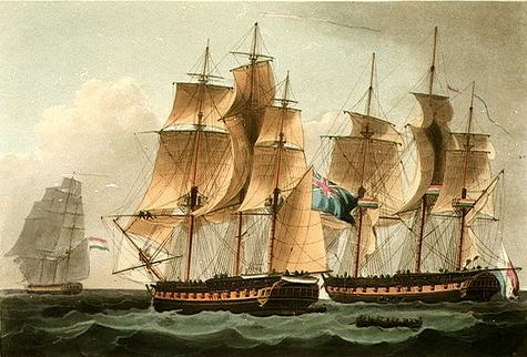 Engraving of a painting of HMS Sirius capturing the Dutch ships Furie and Waakzaamheid, 24 October 1798, created 1 October 1816.